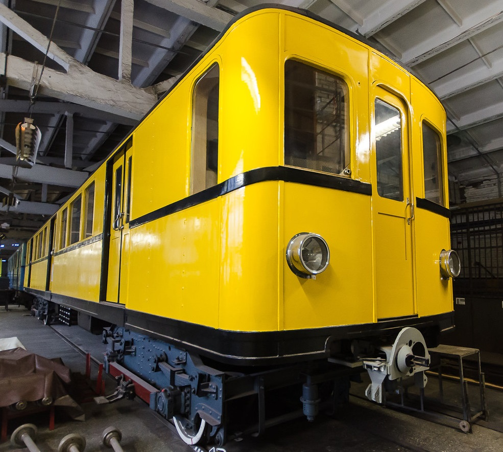 Subway car V4-156 (ex. BVG C1-104) in depot Avtovo of Saint Petersburg Metro